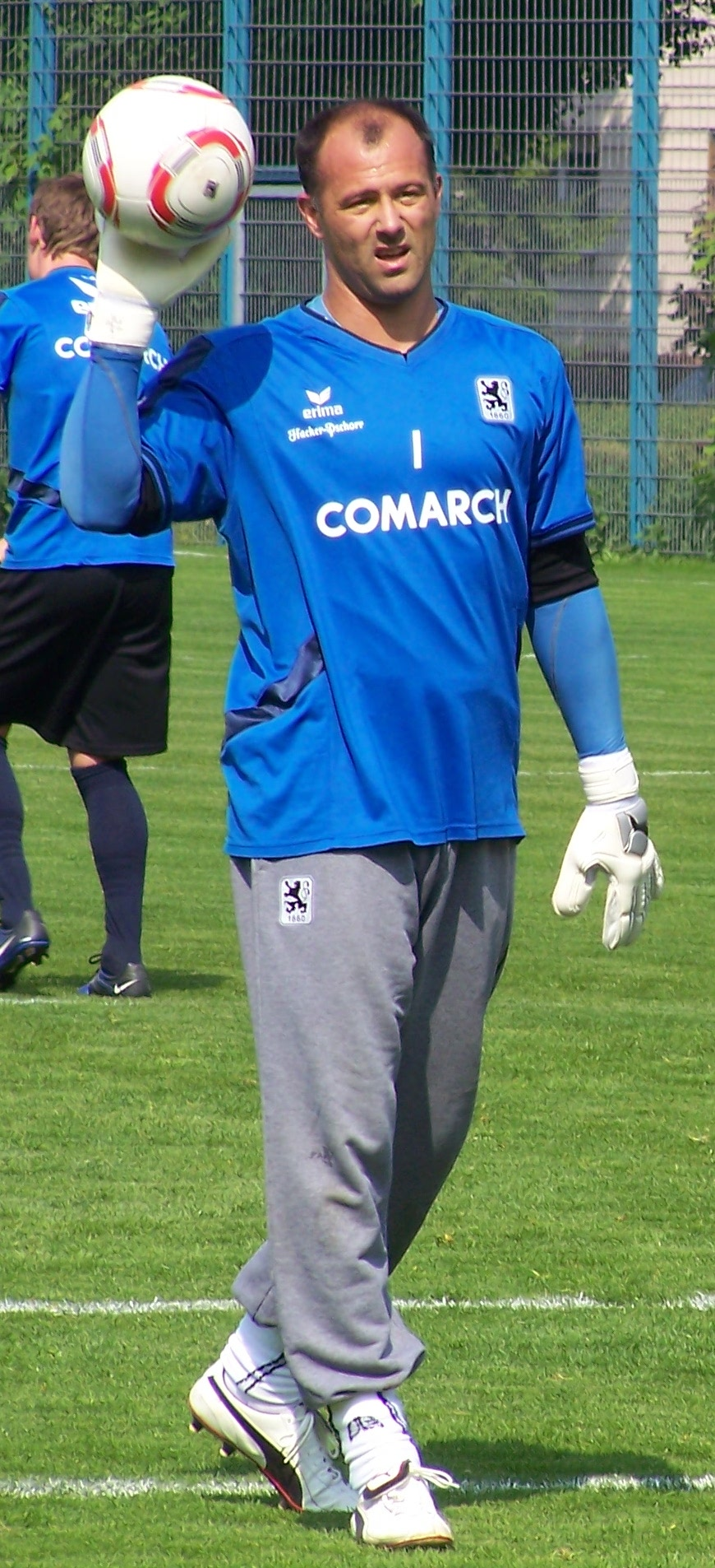 Gabor Kiraly, 1860 München, training